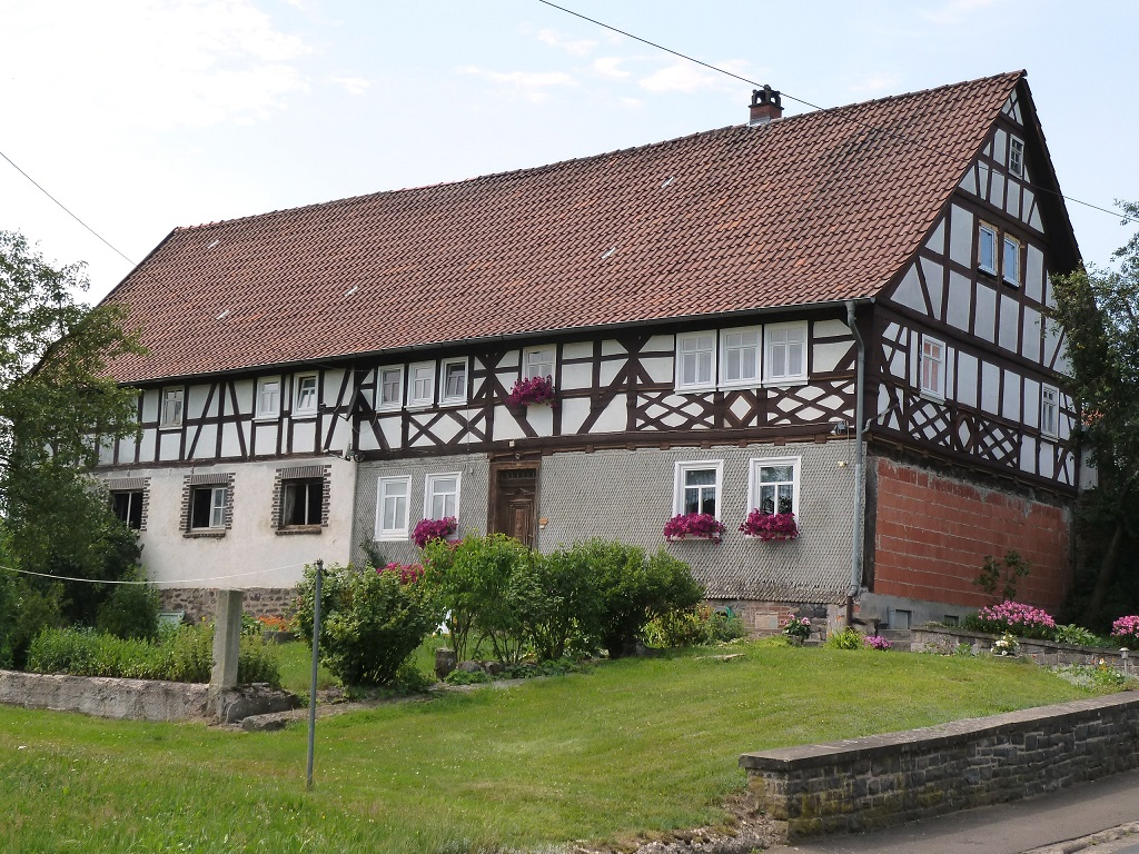 Half-timbered house (Lüdertalstraße 1) in Bannerod, Hesse, Germany.